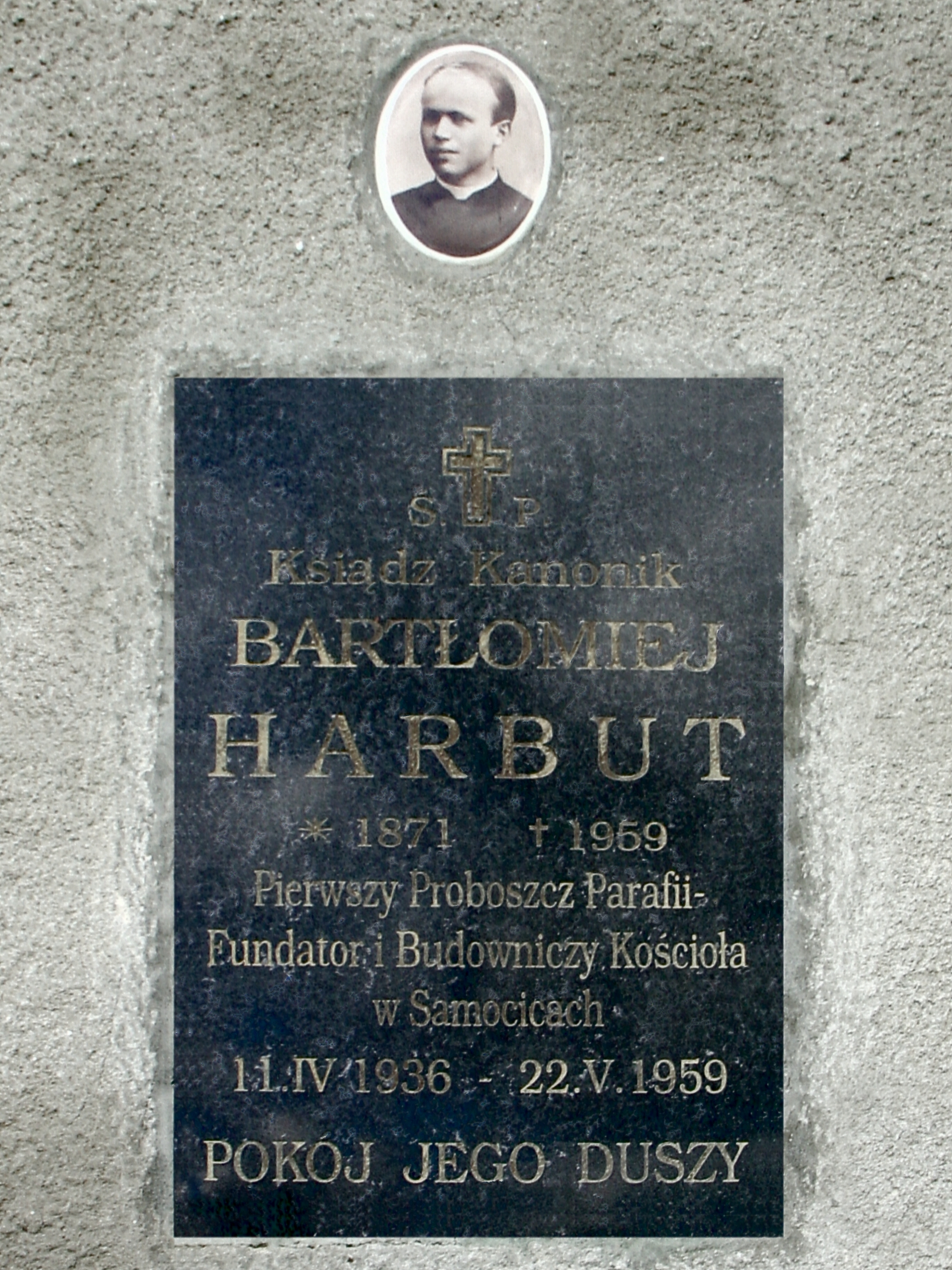 Samocice, the tomb of Father Bartholomew Harbuta